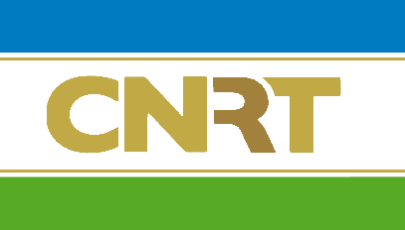 Flag of the National Congress for Timorese Reconstruction, a political party in East Timor.